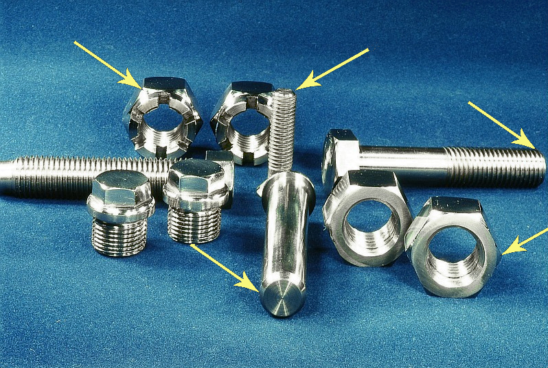 This file represents the use of the word "chamfer" in metalworking (machining).